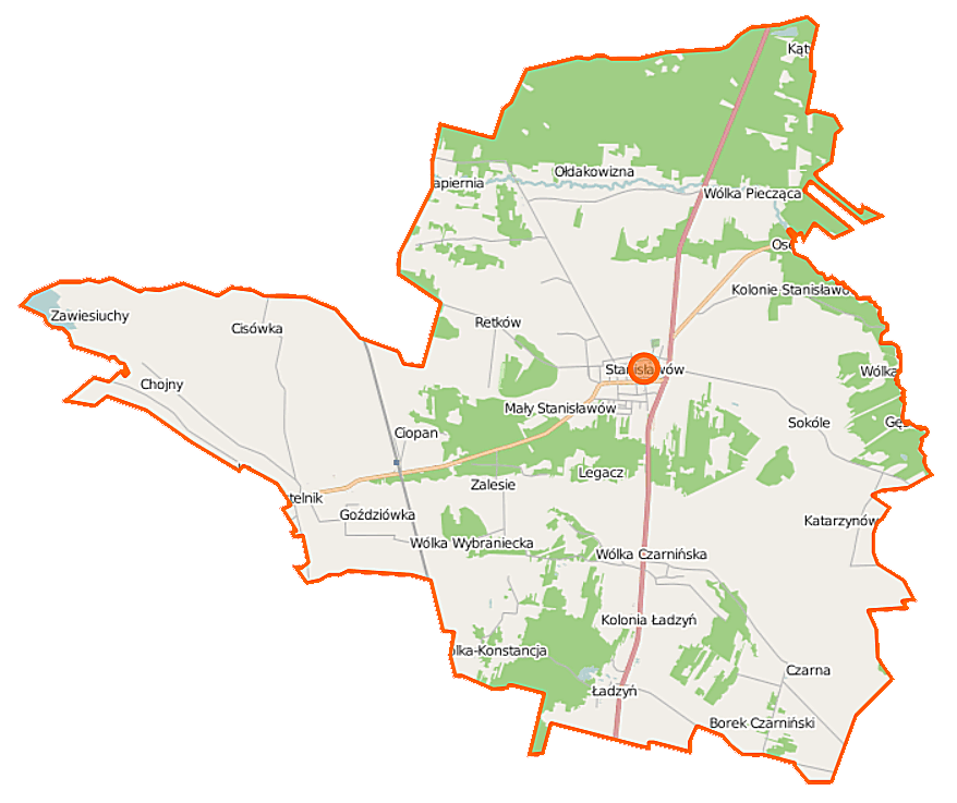 Map of Gmina Stanisławów, Poland This map of Stanisławów (gmina) was created from OpenStreetMap project data, collected by the community. This map may be incomplete, and may contain errors. Don't rely solely on it for navigation. Border coordinates52.348321.3863←↕→21.627652.2242